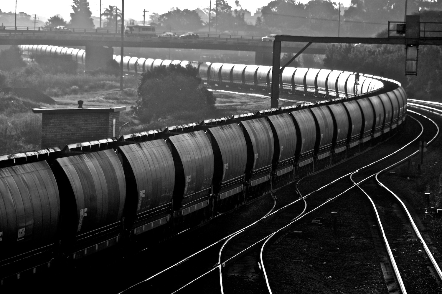 Another long empty coal train heads back to coal mines. Maitland, NSW, Australia